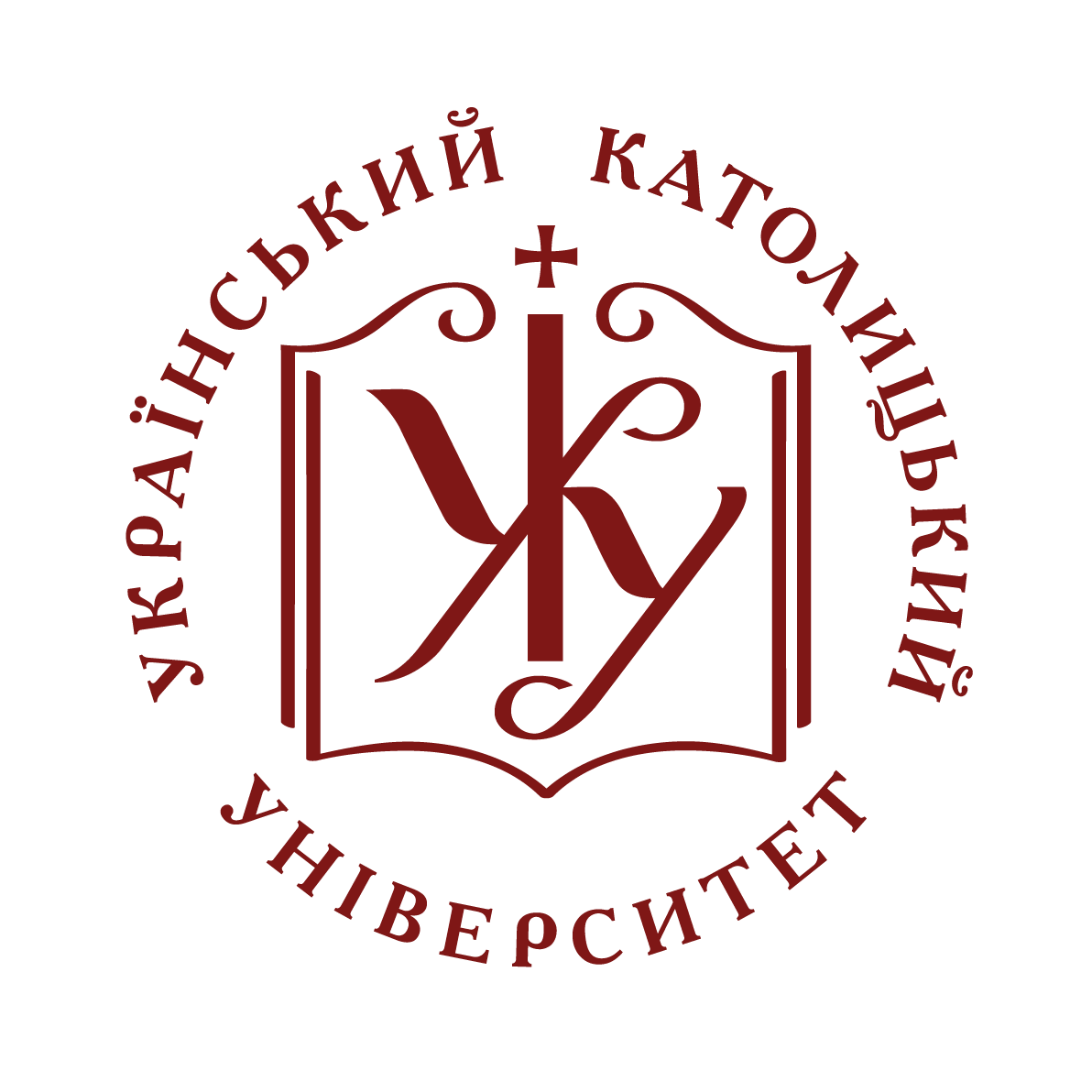 Ukrainian Catholic University emblem. Direct link is located here PD per "symbols and signs of enterprises, institutions and organizations" clause below History of Image:UkrainianCatholicUniversitylogo.gif 2008-04-19T06:30:58Z Irpen (Talk